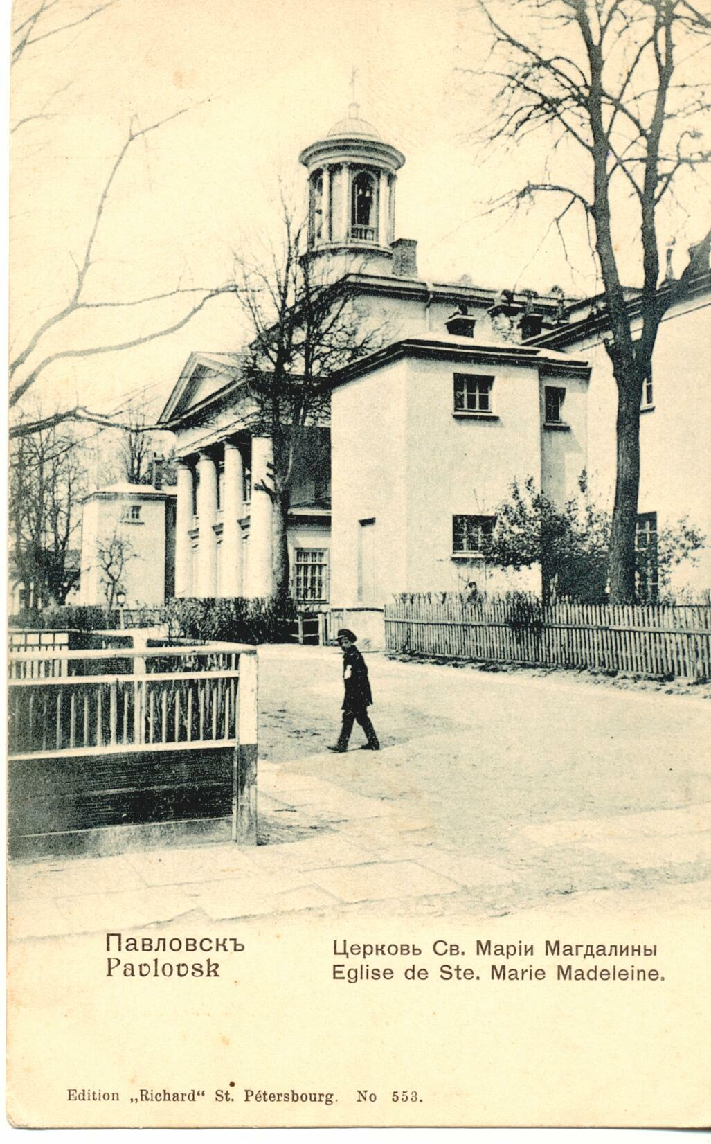 Pavlovsk (Russia)